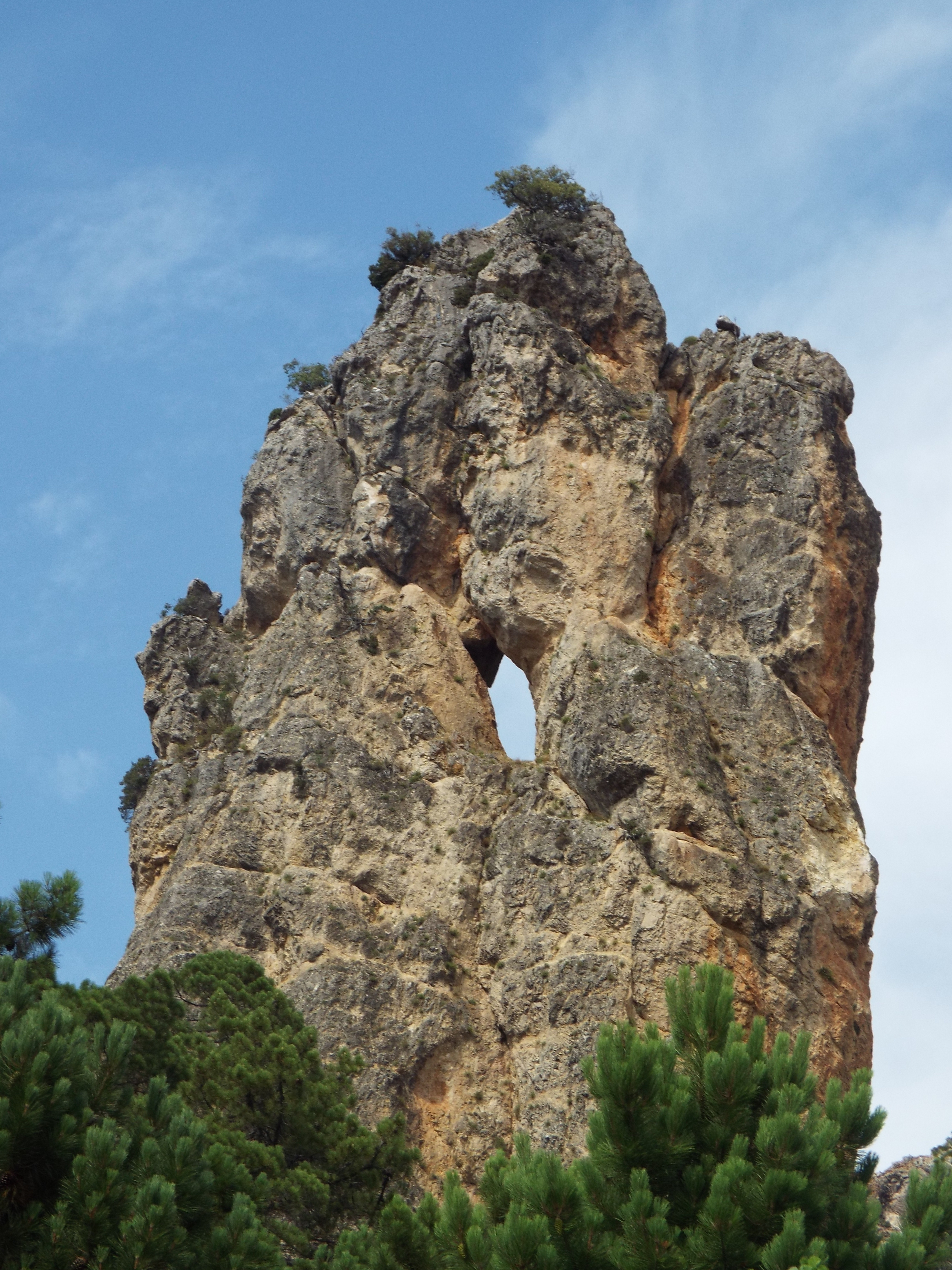 Foto de la Piedra de la Ventana, uno de los reclamos turísticos del valle.